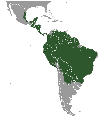 Ocelot (Leopardus pardalis) range